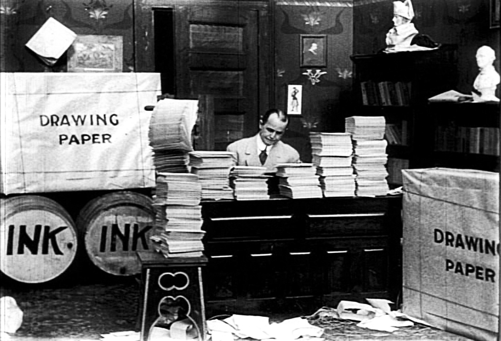 Still from Winsor McCay's Little Nemo film of 1911